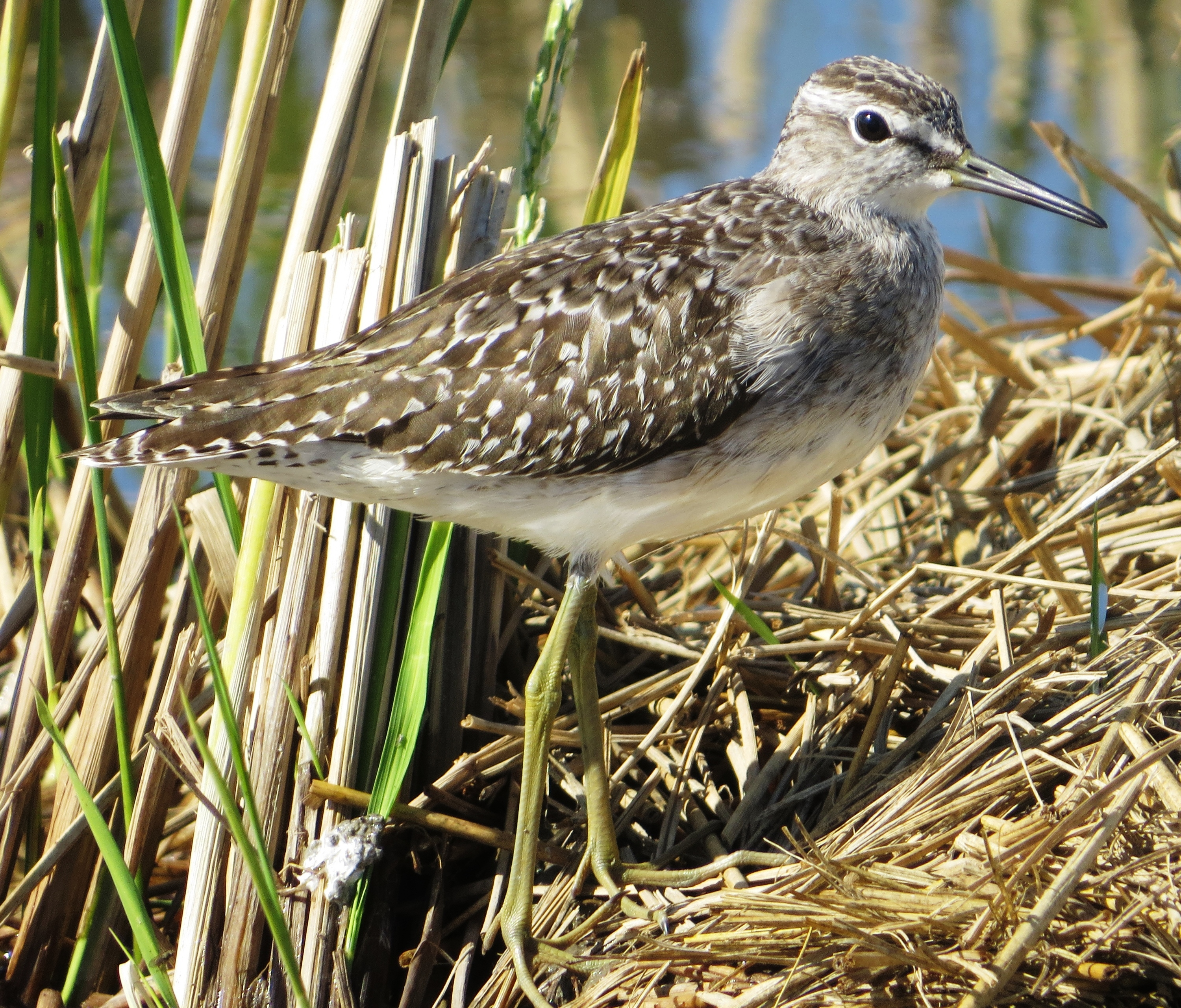 Tringa glareola (Wood Sandpiper), in Japan.